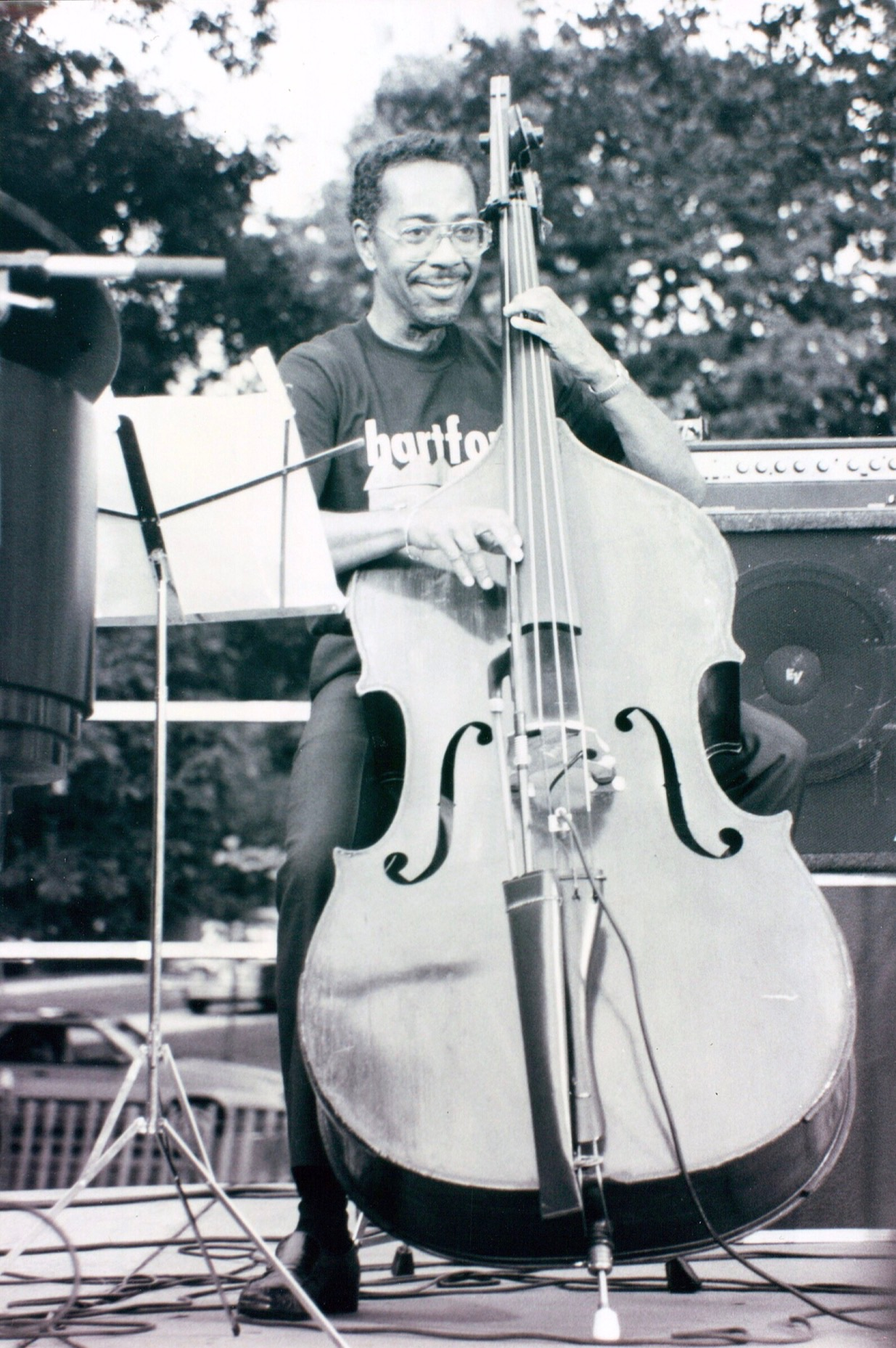 Paul Brown (PB) jazz bassist, July, 1994 on stage during Jazz concerts in Busnell Park